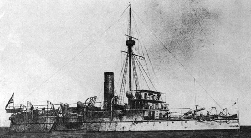 Japanese armoured gunboat Heien, former Chinese Ping Yuen. Mikasa Memorial Museum